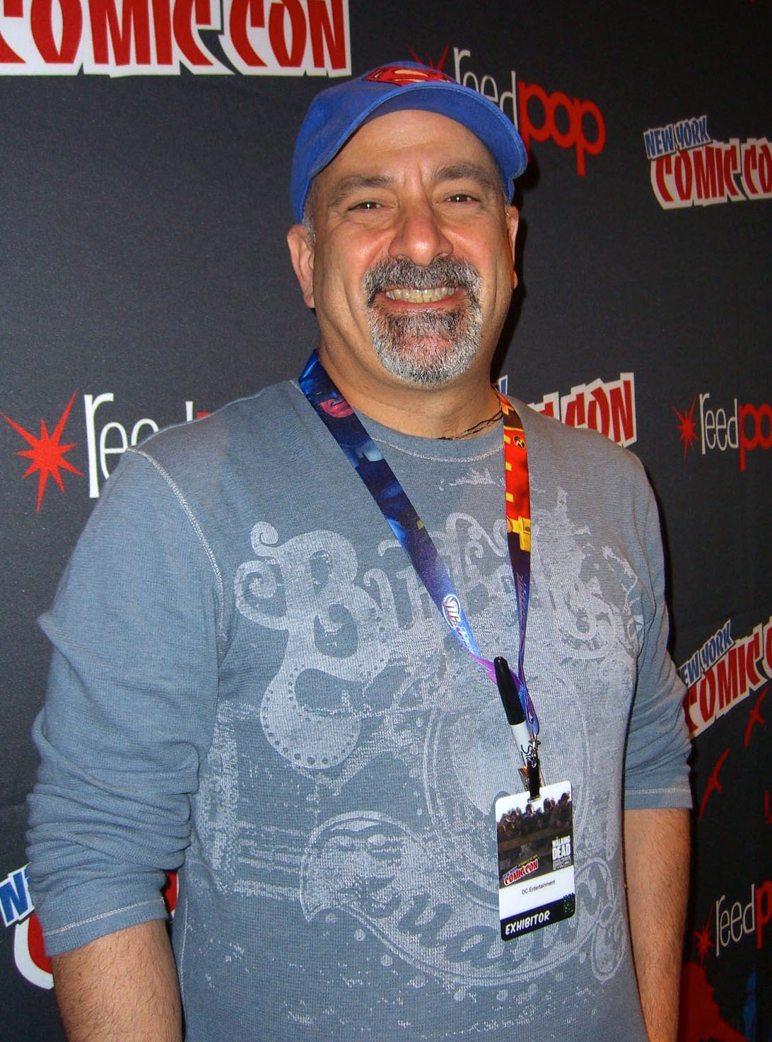 Comics writer/editor and DC Comics Co-Publisher Dan DiDio on Day 4 of the 2012 New York Comic Con, Sunday October 14, 2012 at the Jacob K. Javits Convention Center in Manhattan. This photo was created by Luigi Novi. It is not in the public domain, and use of this file outside of the licensing terms is a copyright violation.